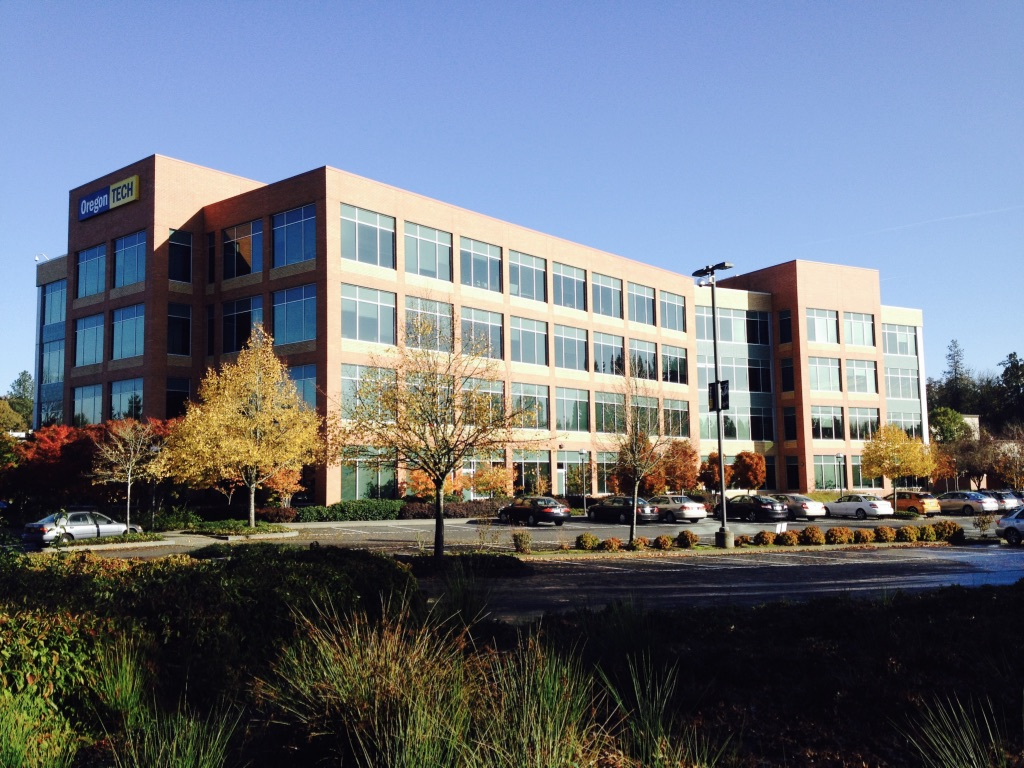 Oregon Tech Wilsonville West wing